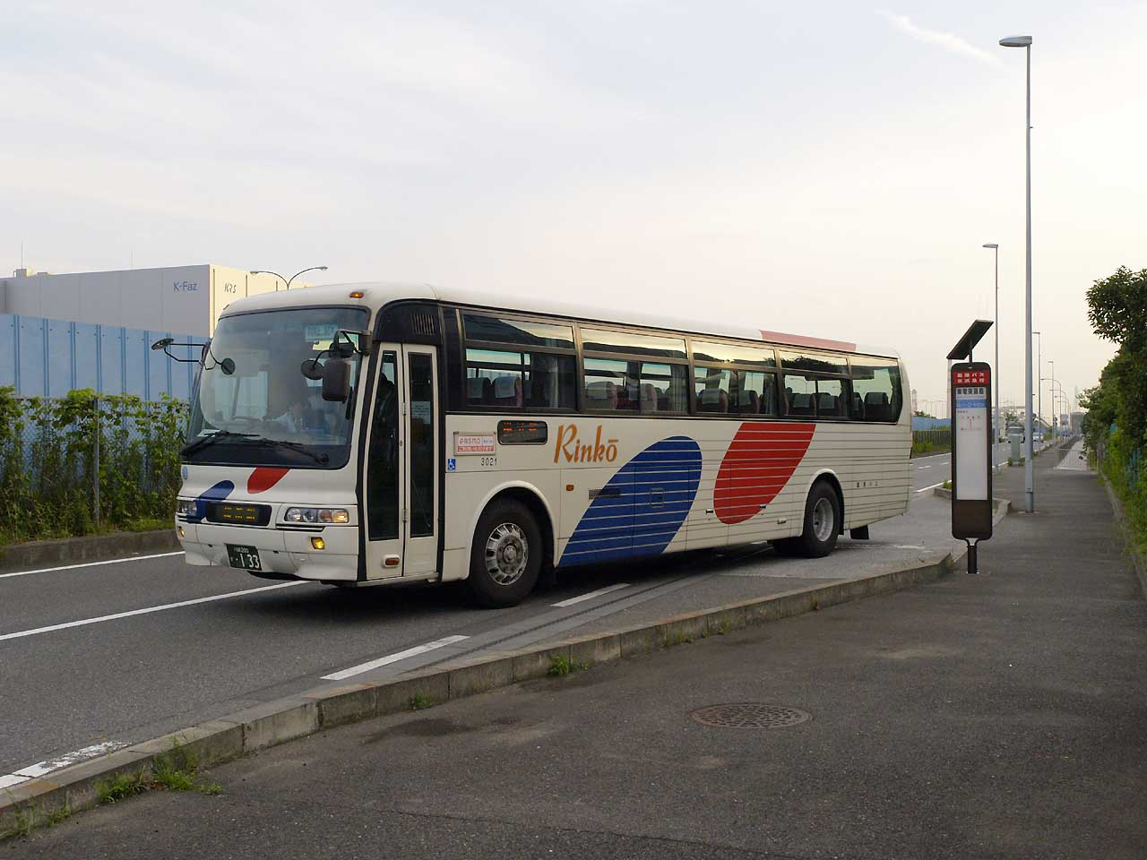 Expressway bus of Yokohama station and Higashi-ougishima, operated by Keikyu Bus and Kawasaki Tsurumi Rinko Bus. Model: Mitsubishi Fuso Aero Bus KL-MS86MS License plate: KNK200 KA-133 Place: TEPCO Higashi-Ougishima power station, Kawasaki ward, Kanagawa Japan